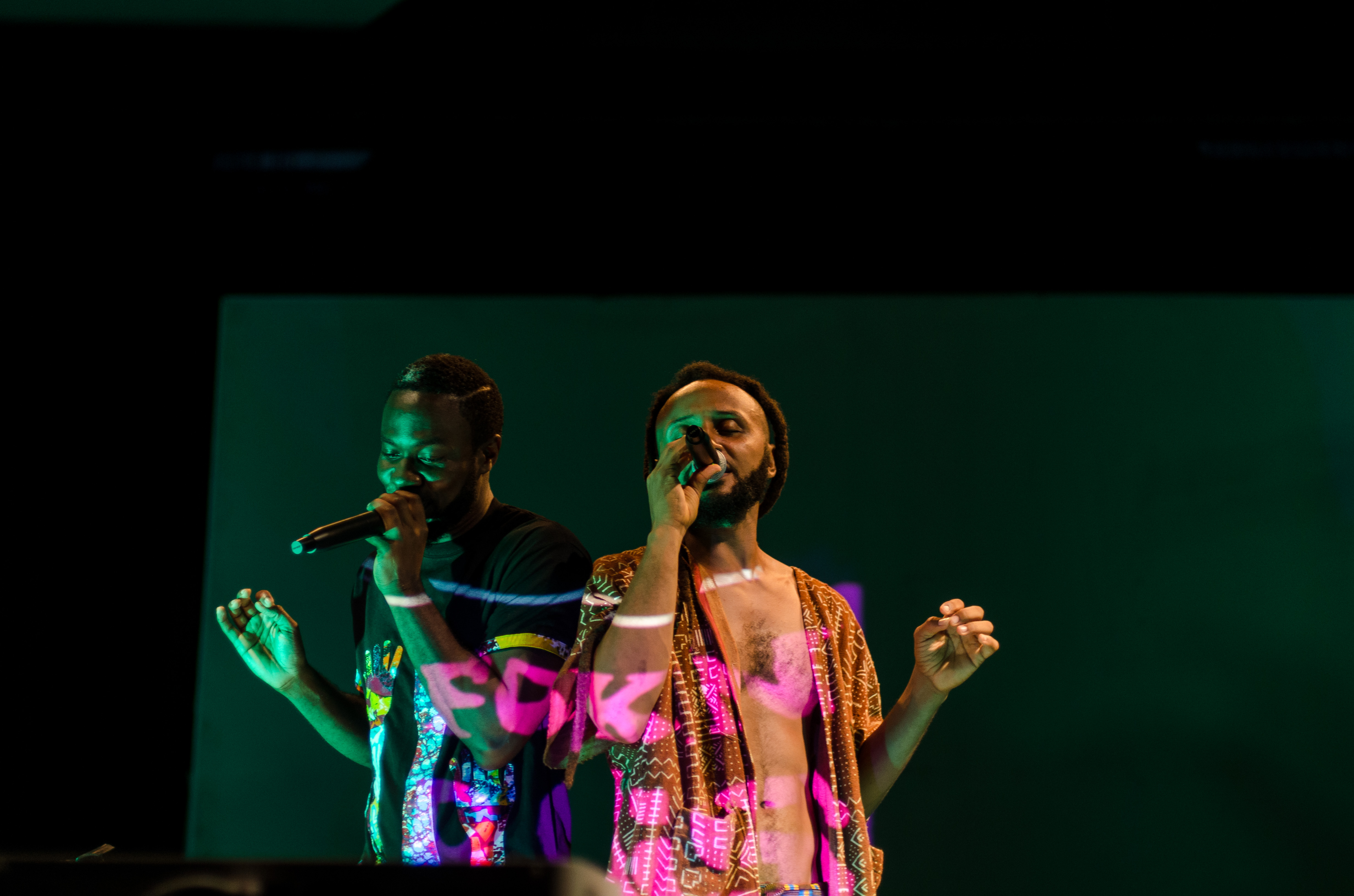 The music duo Fokn Bois performing at the Alliance Francais in Accra, Ghana.